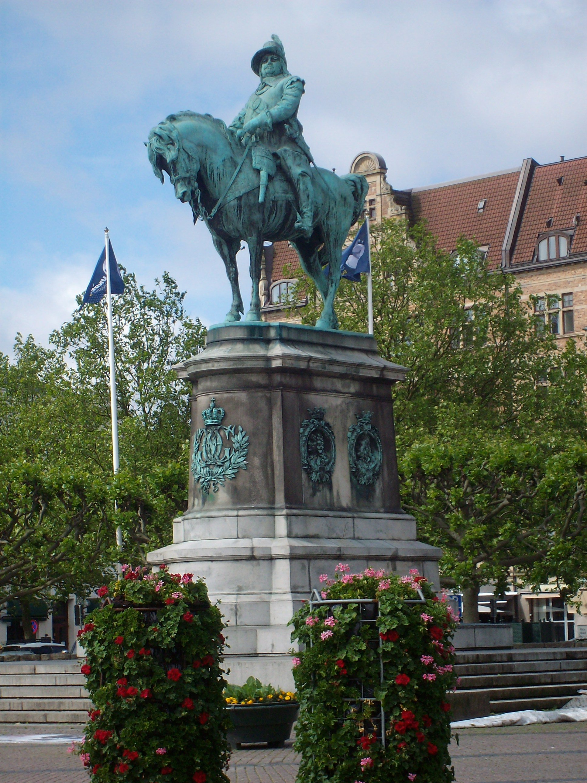 Statue of King Karl X Gustav of Sweden on the town square in Malmö